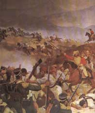 The Battle of Boyacá in the War of Independence of Colombia, Venezuela, Ecuador and Panama against Spain (Boyacá, Colombia, 1819).